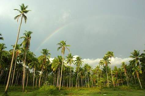 Coconut palm - Cocos nucifera, Coconut fields in Ashtamichira, Kerala, southern India.